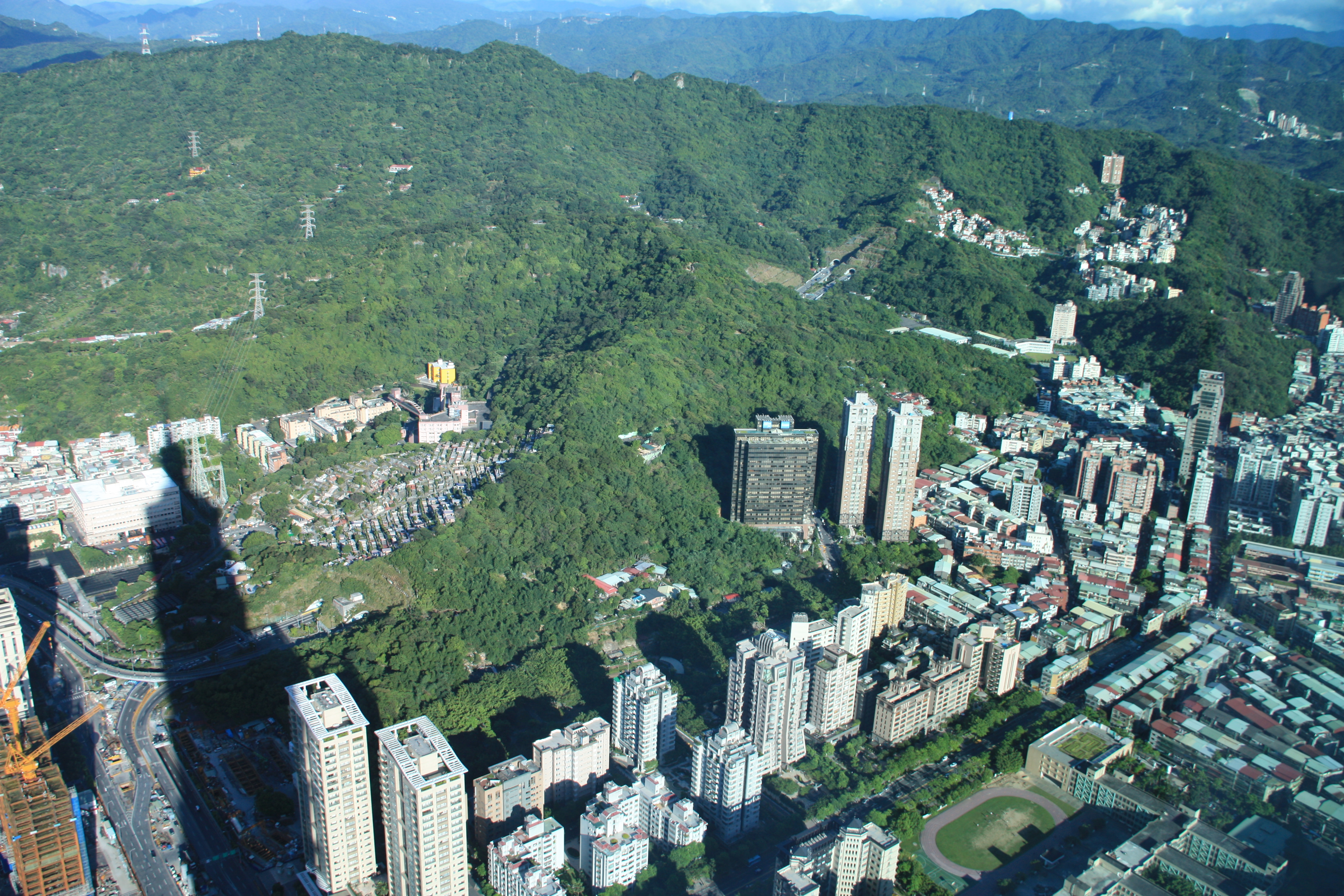 Táiběi Xìnyì District Táiběi 101 Observation Platform View to SE XínYí Expy (with Tunnels)